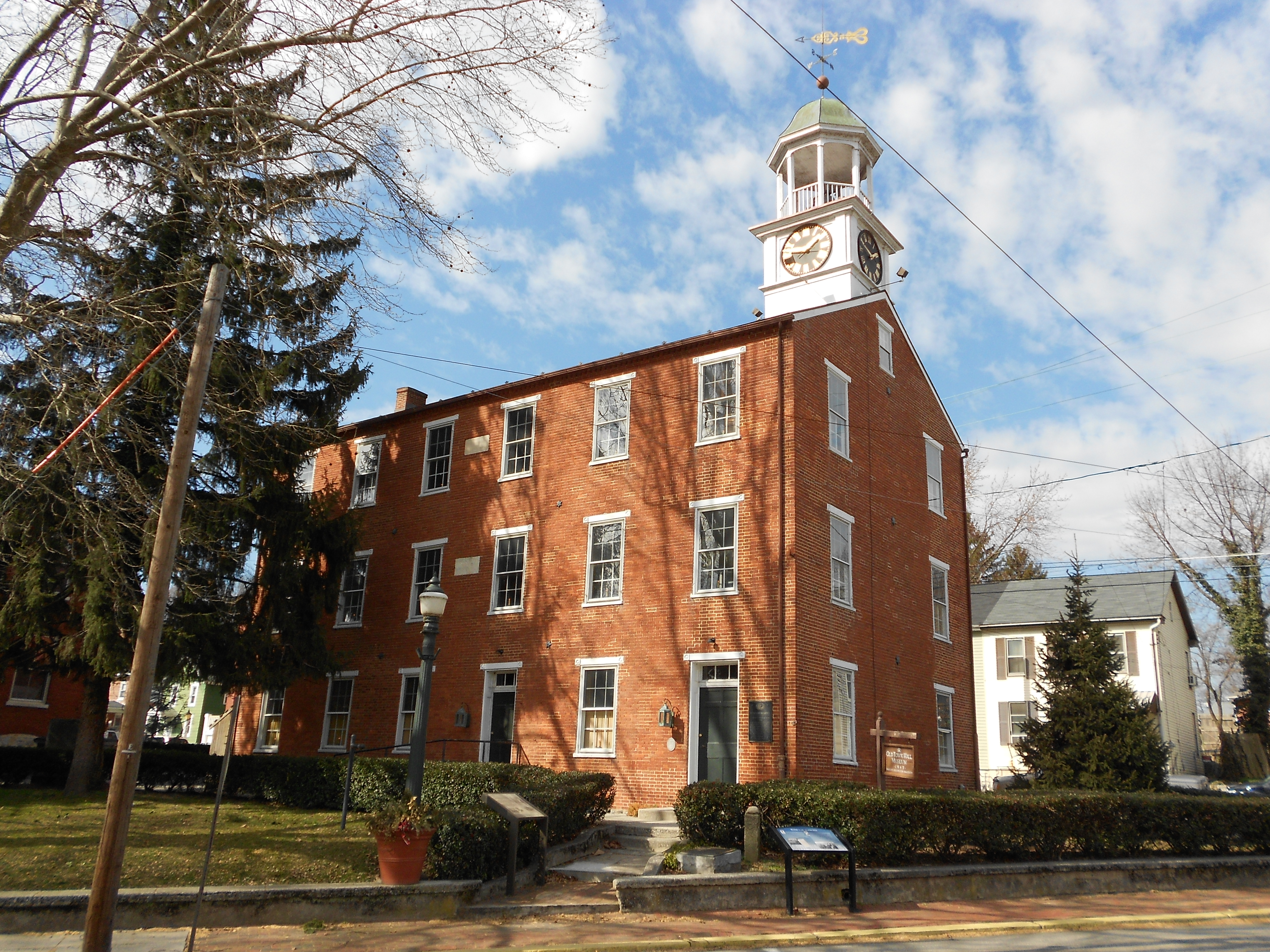 Old Town Hall in Marietta, Lancaster County, Pennsylvania. Part of the Marietta Historic District listed by the NRHP on July 18, 1978, which is roughly bounded by Market, Front, Biddle, and Waterford Streets, Marietta.